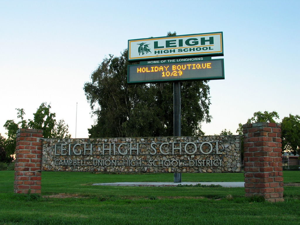 Leigh High School billboard. Photograph taken by Bahn Mi of the Schoolwatch Programme and released freely under the Creative Commons Attribution ShareAlike 2.0 license.